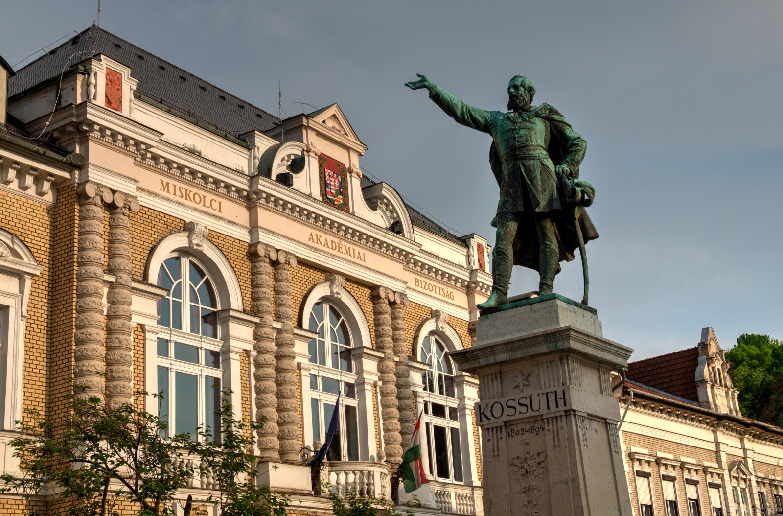 Headquarters of MAB, statue of Lajos Kossuth in Erzsébet square, Miskolc, Hungary